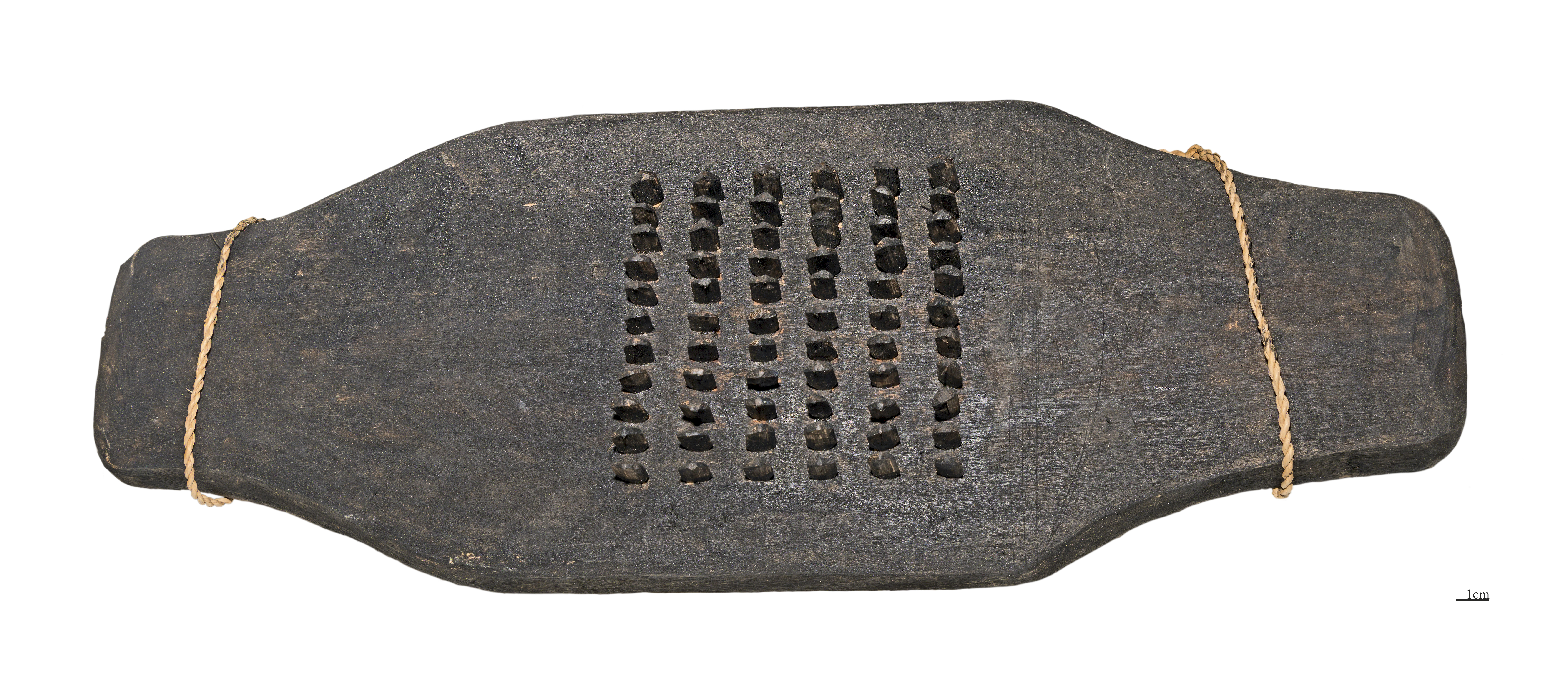 Cassava (Manihot esculenta) grater "orana" iny language. Population : Karajá people : Santa Isabel do Morro (Hawaló), Brasil Date of collection: June 2010 Materials: wood and rope Size : 44.5 x 17 x 5 cm